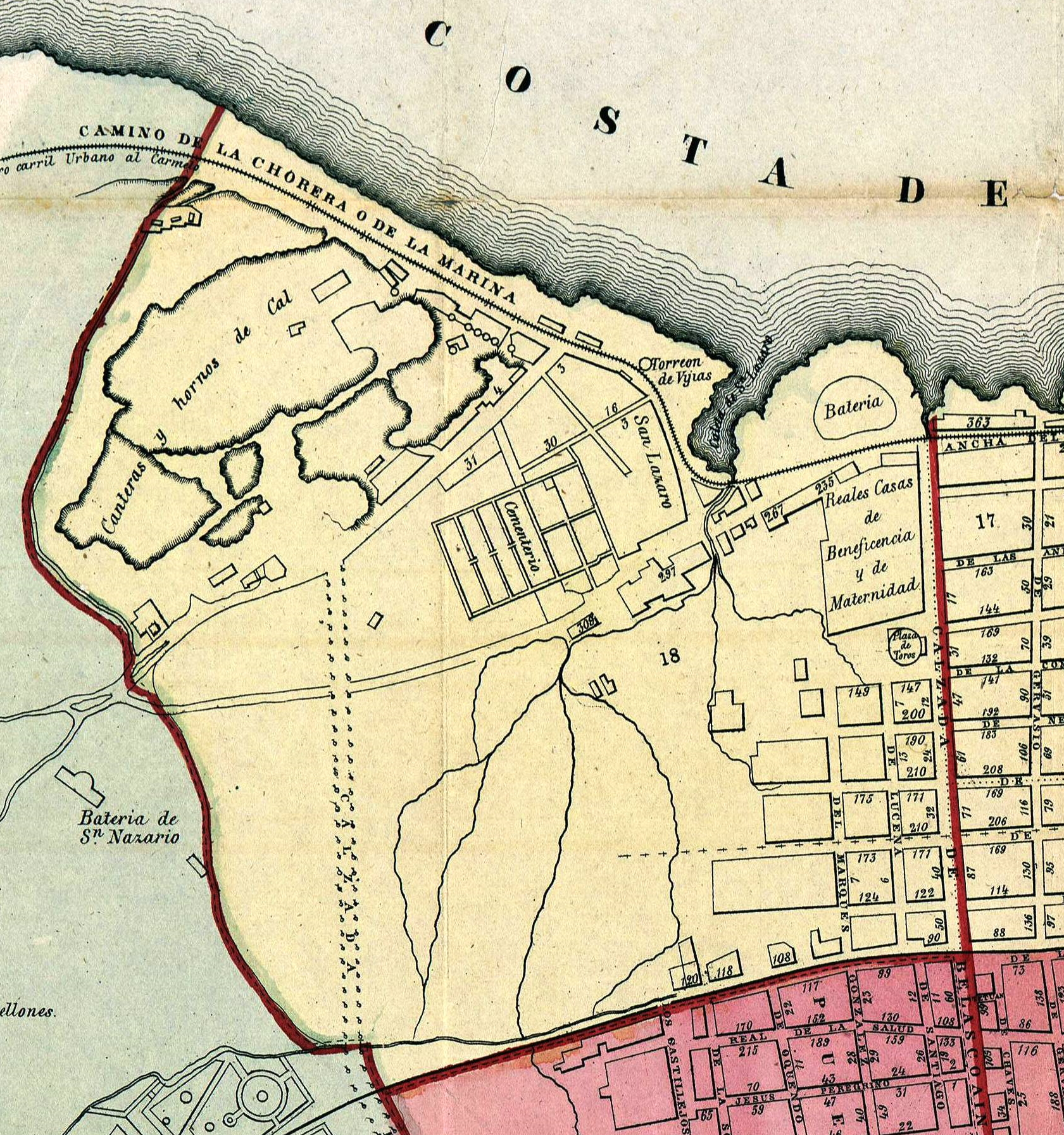 Partial Map of Habana 1866 showing canteras in the Barrio de San Lázaro. Havana, Cuba.